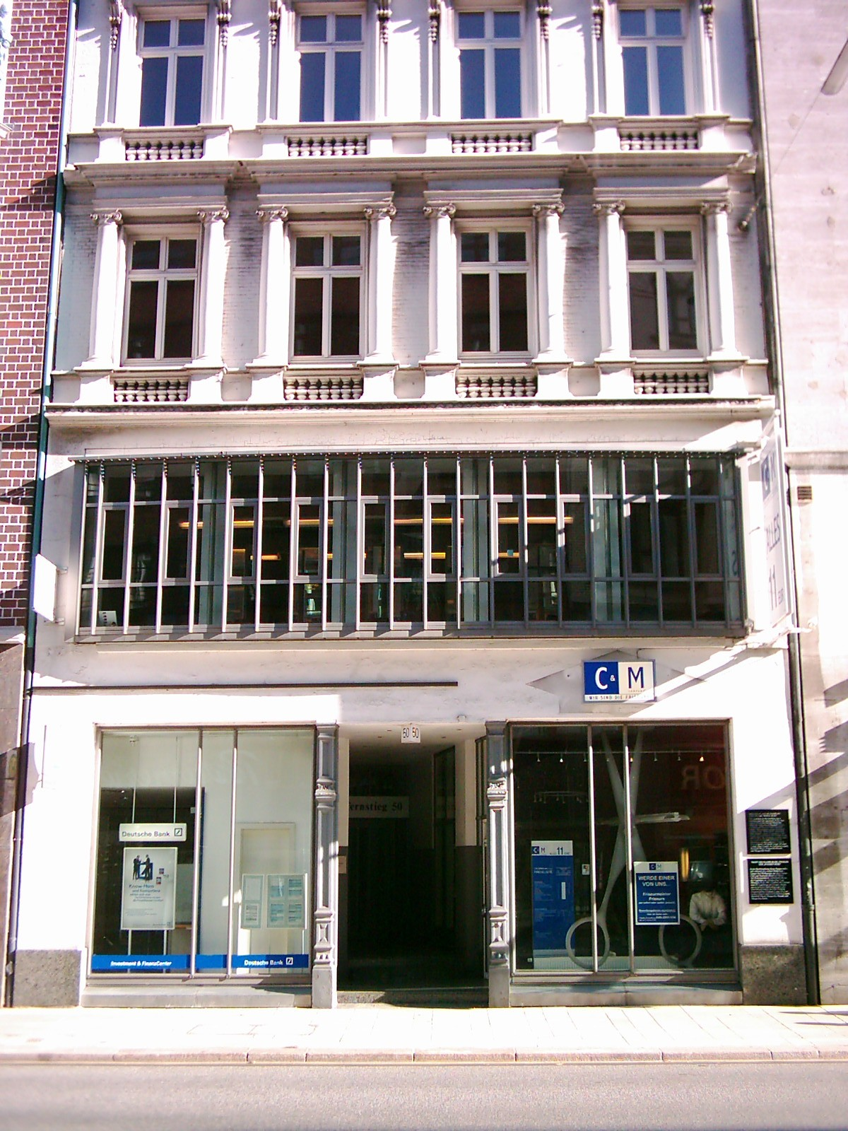 Former bookshop in Hamburg, Germany. During WW II meeting point of members of the antifascist resistance group "White Rose". See also Information plaque Wohngeschäftshaus, 1878-1879, Entwurf:Johannes Grotjan, Ensemble: Jungfernstieg 48, 49, 50